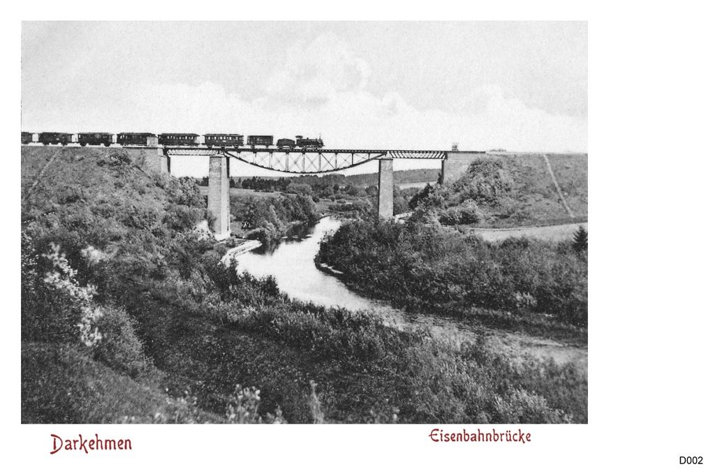 Railway bridge over Angrapa in Ozyorsk (before 1945) Darkehmen